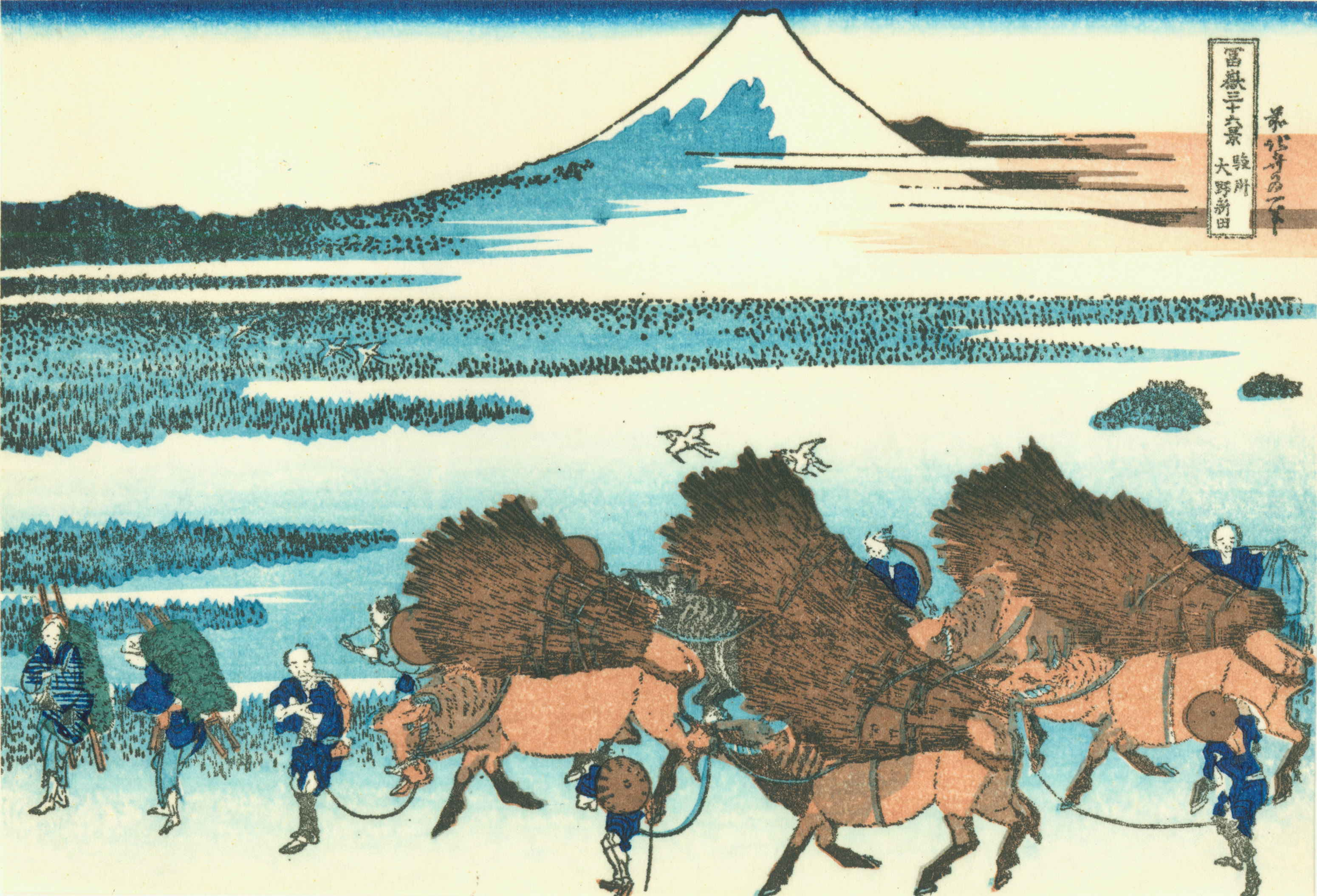 Part of the series Thirty-six Views of Mount Fuji, no. 31.